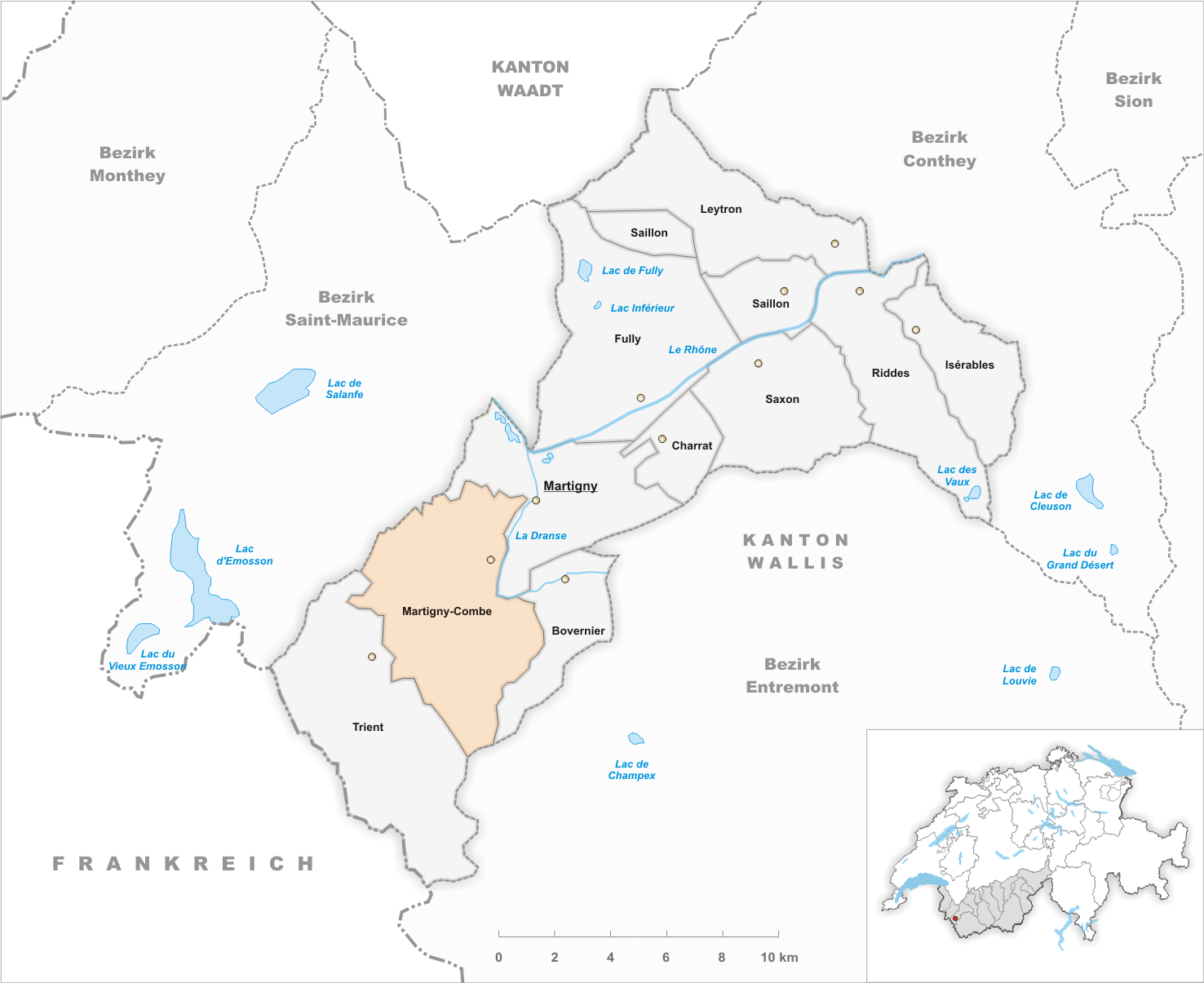 Municipality Martigny-Combe